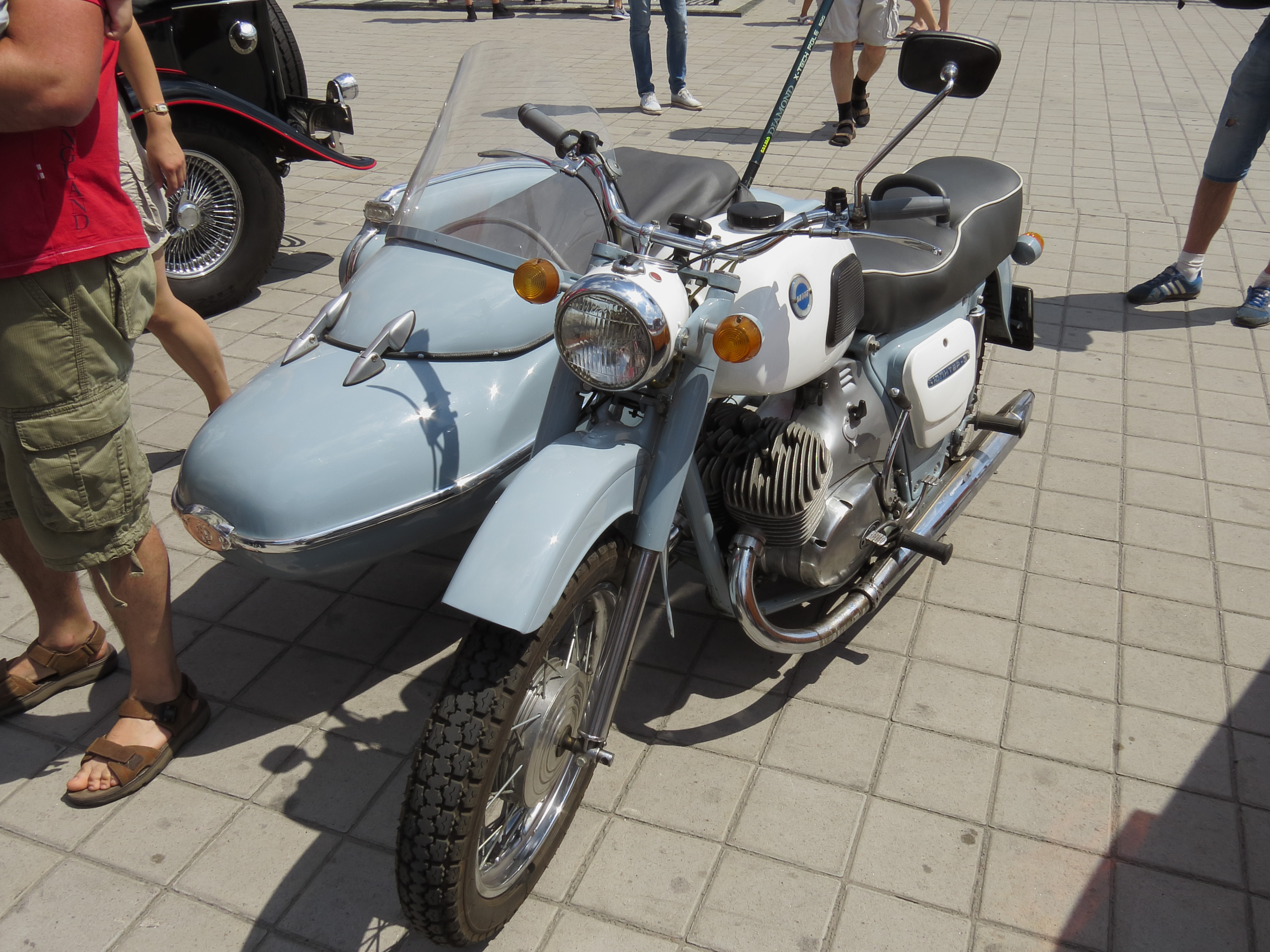 OldCarLand festival in Kiev. IZH Jupiter-3